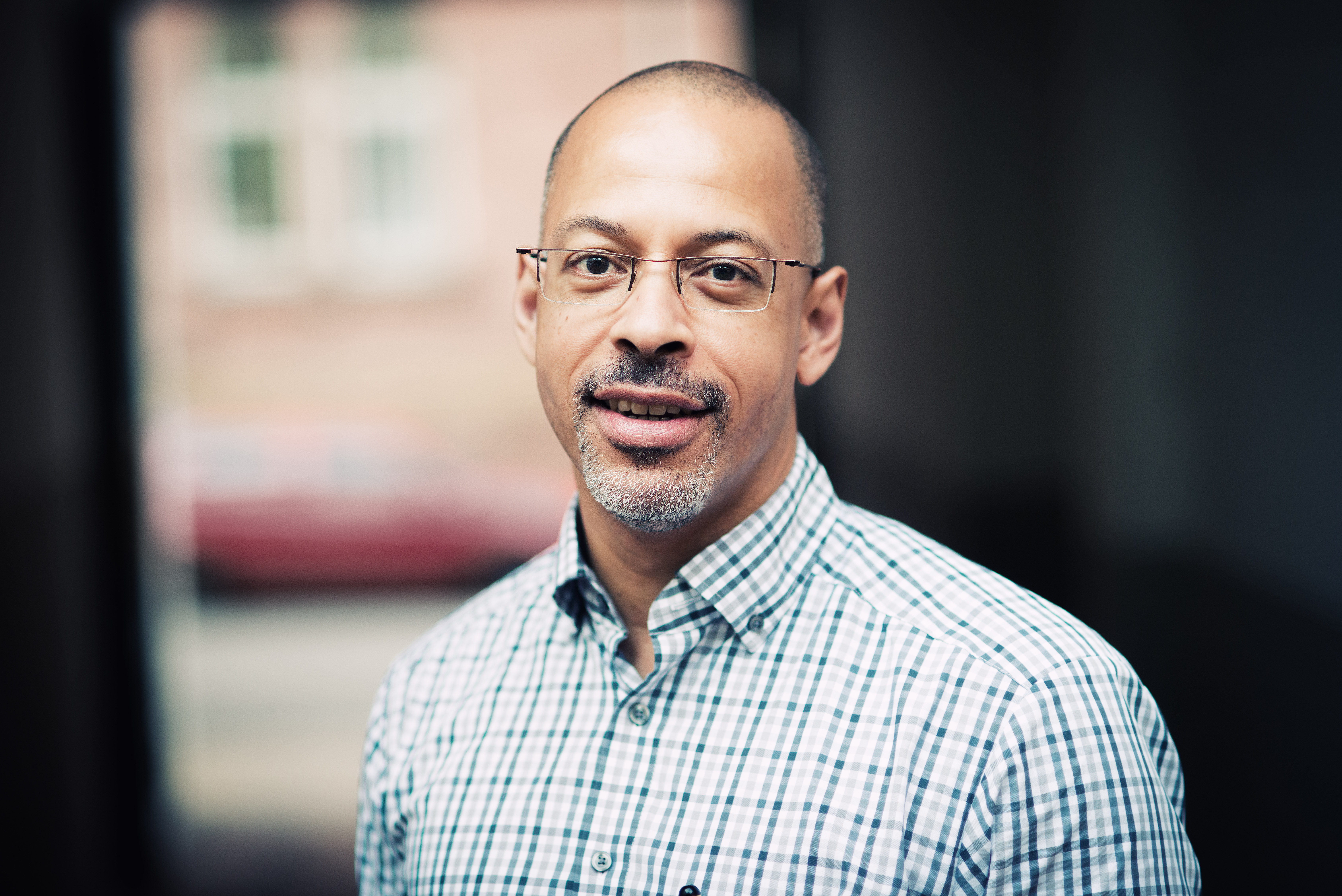 Prof. Henry Keazor in Heidelberg, 2016